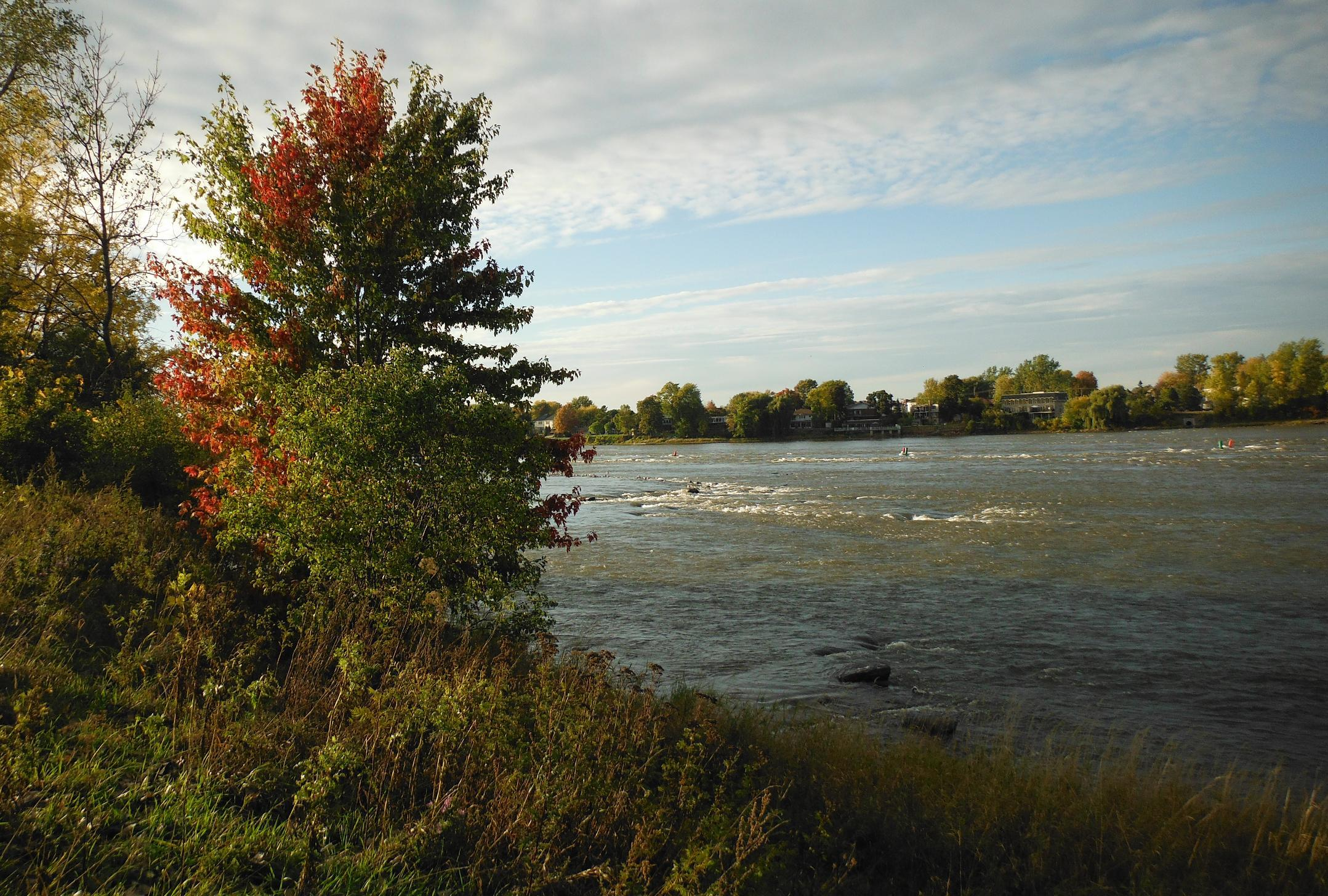 Whitehorse Rapids/ Rapides du Cheval Blanc in fall .Pierrefonds=Roxboro , Québec , Canada